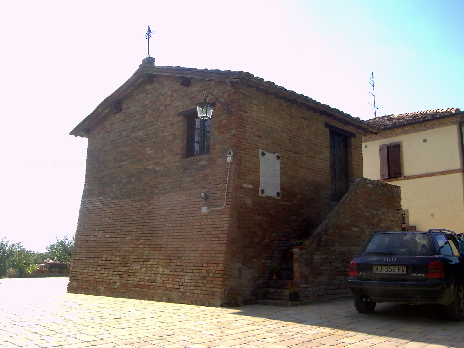 S.Margherita da Cortona home (XIII Century). Near Pozzuolo, Umbria, Italy